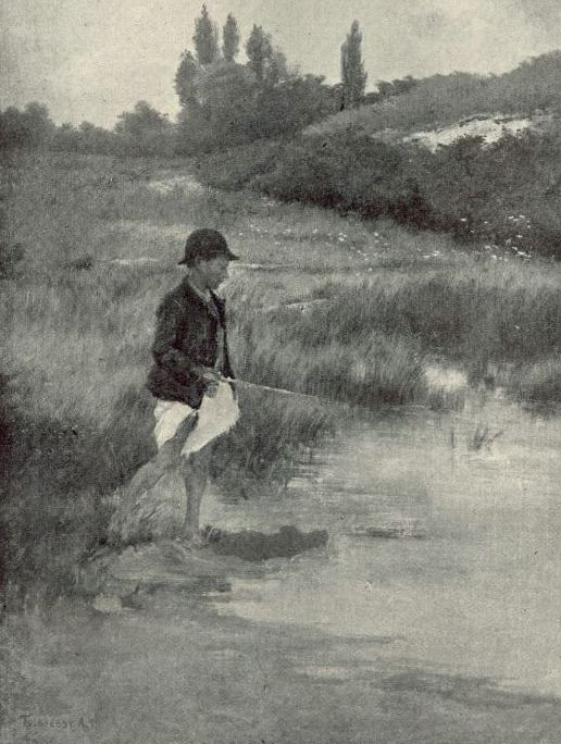 Fishing Boy